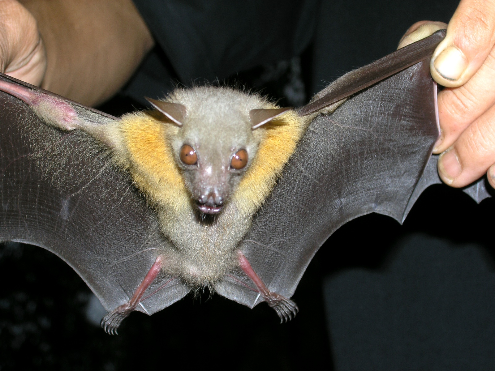 Cynopterus brachyotis in the Philippines